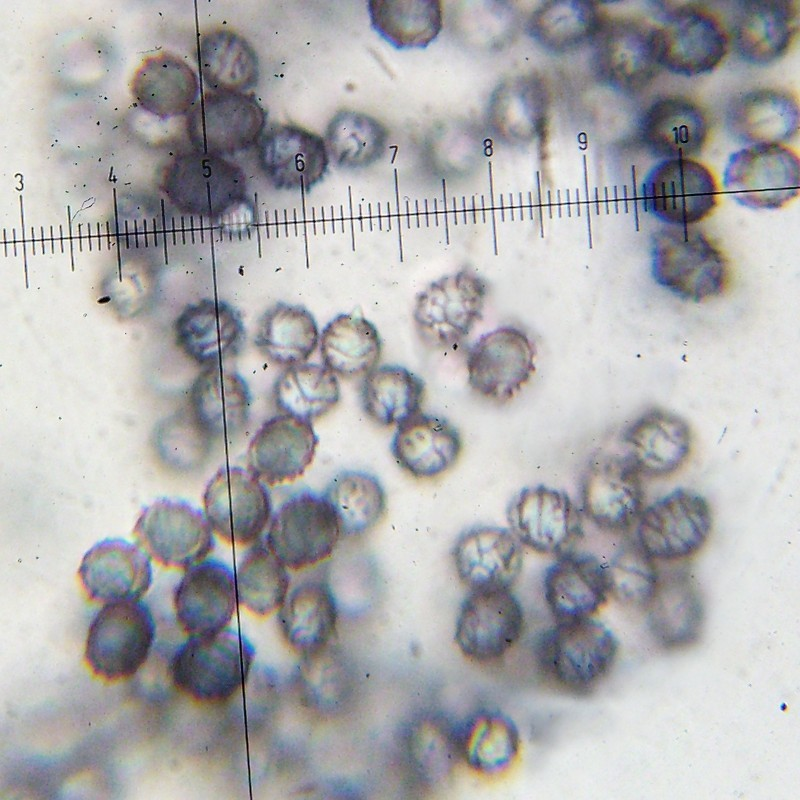 Lactarius glyciosmus (Fr. ex Fr.) Fr. 20090907.5 Wells Gray Park, BC Spores, stained in Lugol's, at 1000x.